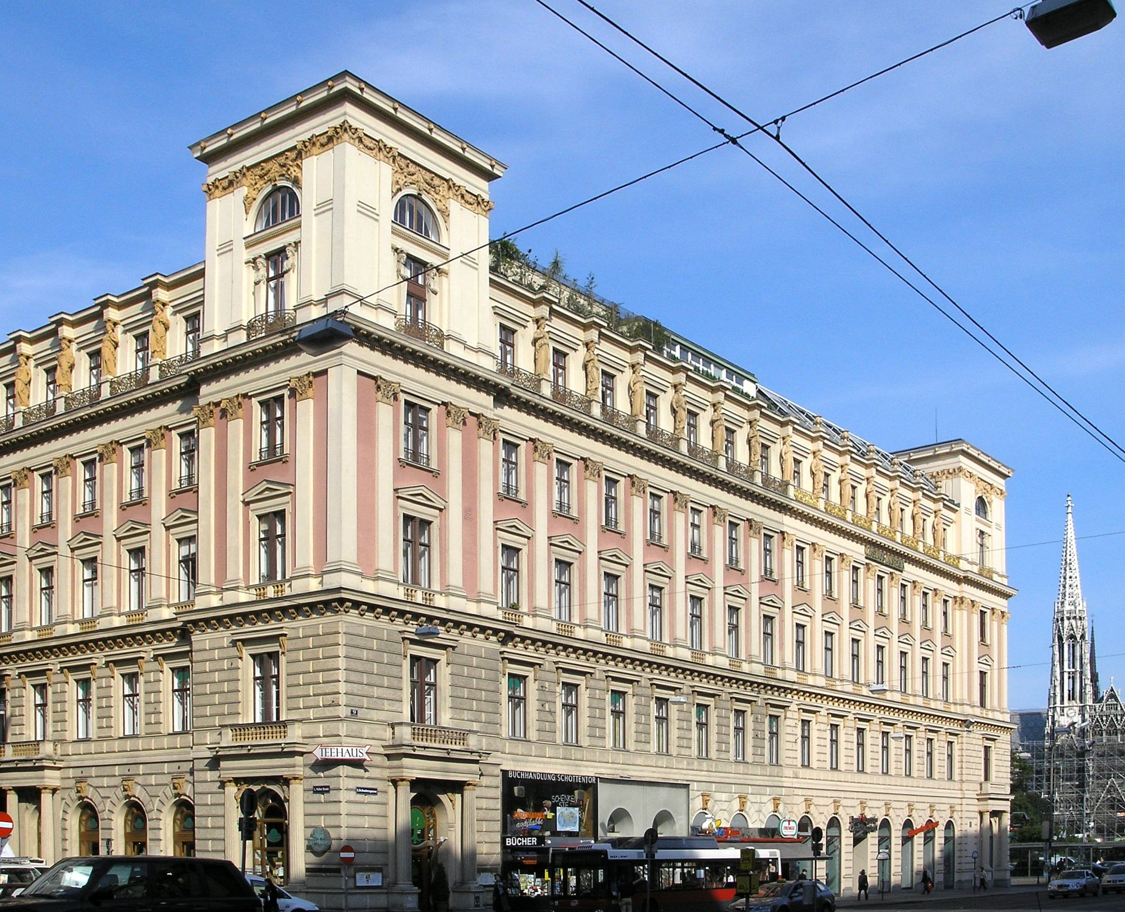 Palais Ephrussi on the Ringstraße in Vienna, formerly owned by the Jewish Austrian noble family von Ephrussi. Constructed around end of the 1800's, beginning of 1900's. "Aryanised" (confiscated) by the Nazis in 1938, the family was forced to flee. Today seat of the Casinos Austria company.